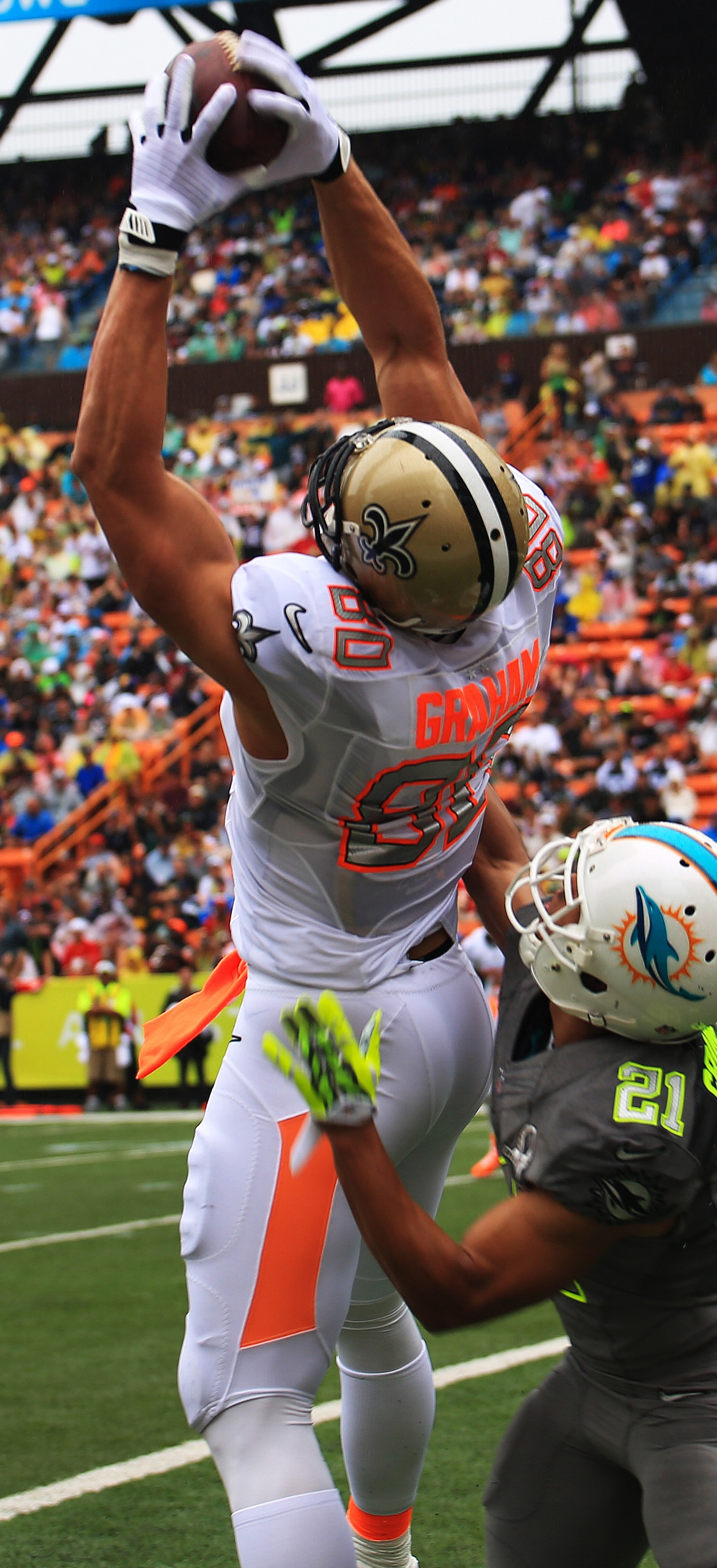 Jimmy Graham, tight end for the New Orleans Saints, catches a touchdown pass from Drew Brees, during the 2014 National Football League Pro Bowl at the Aloha Stadium, Hawaii, Jan. 26, 2014.